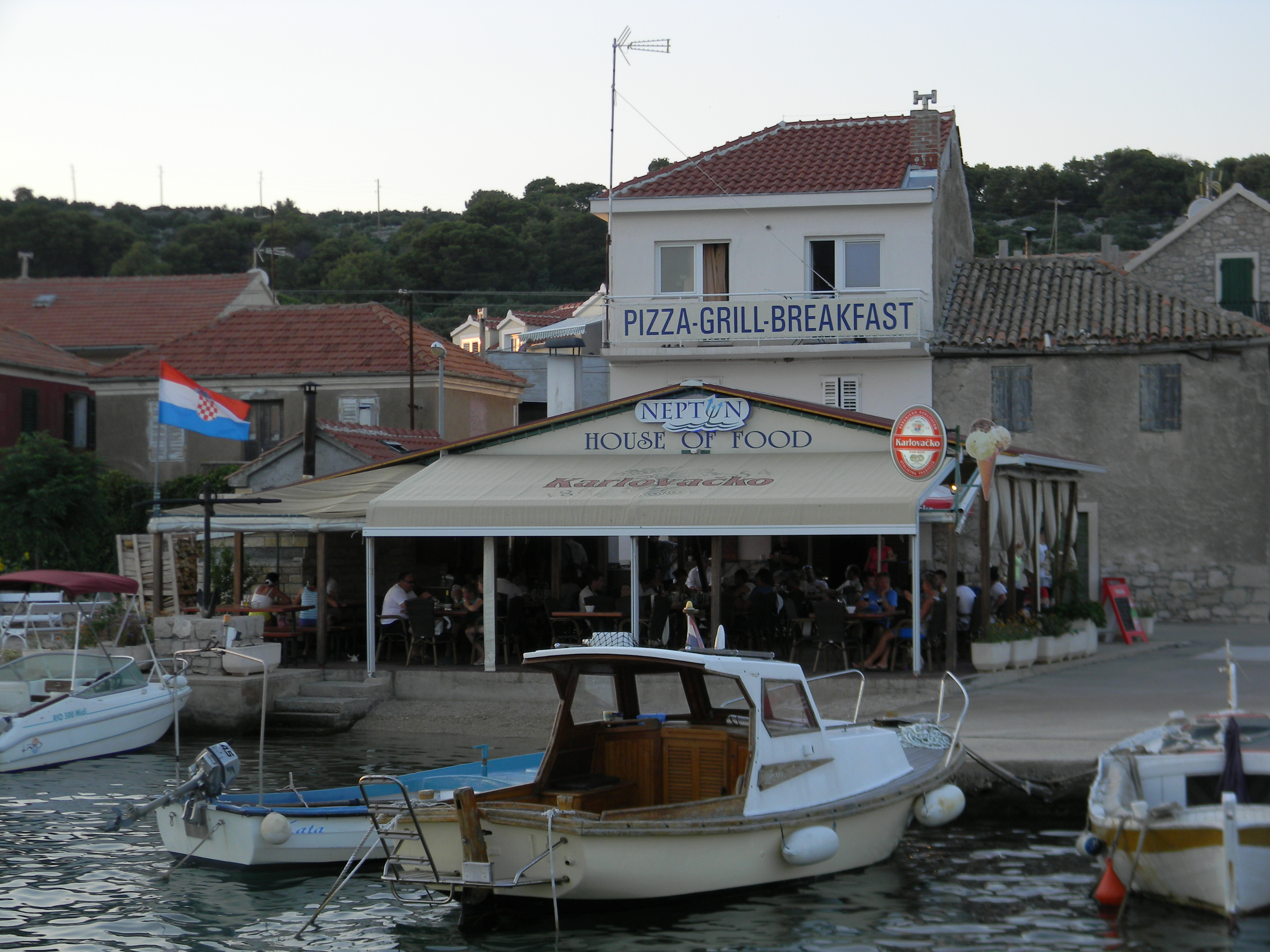 kaprije - comunity place and harbour